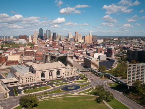 This is a picture of the Downtown Loop, Kansas City, looking north from Liberty Memorial, Crown Center is not shown (it is out of frame to the right).